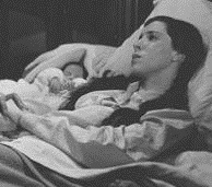 Margarita Linton-actriz